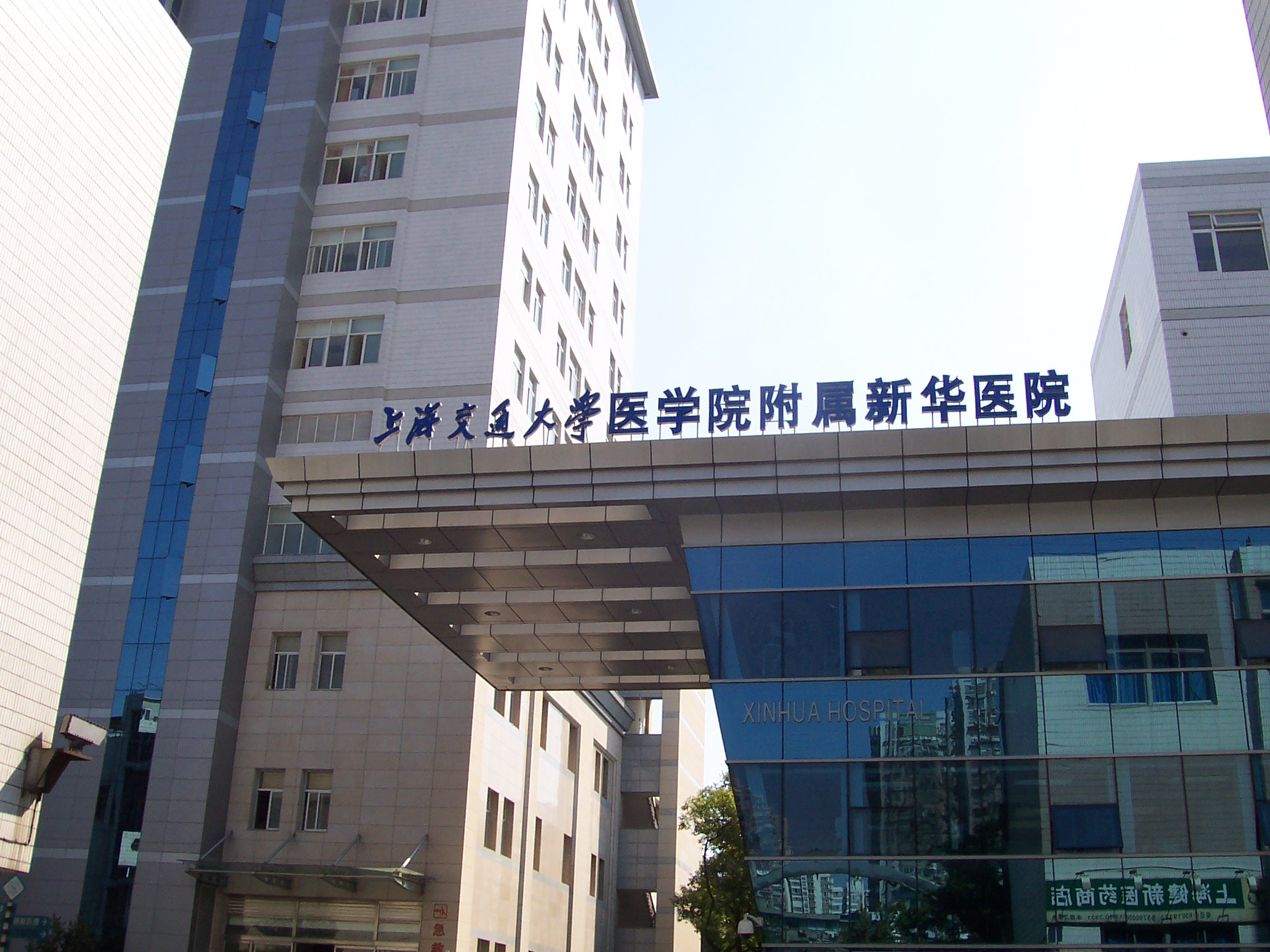 the North Entrance of Xinhua Hospital